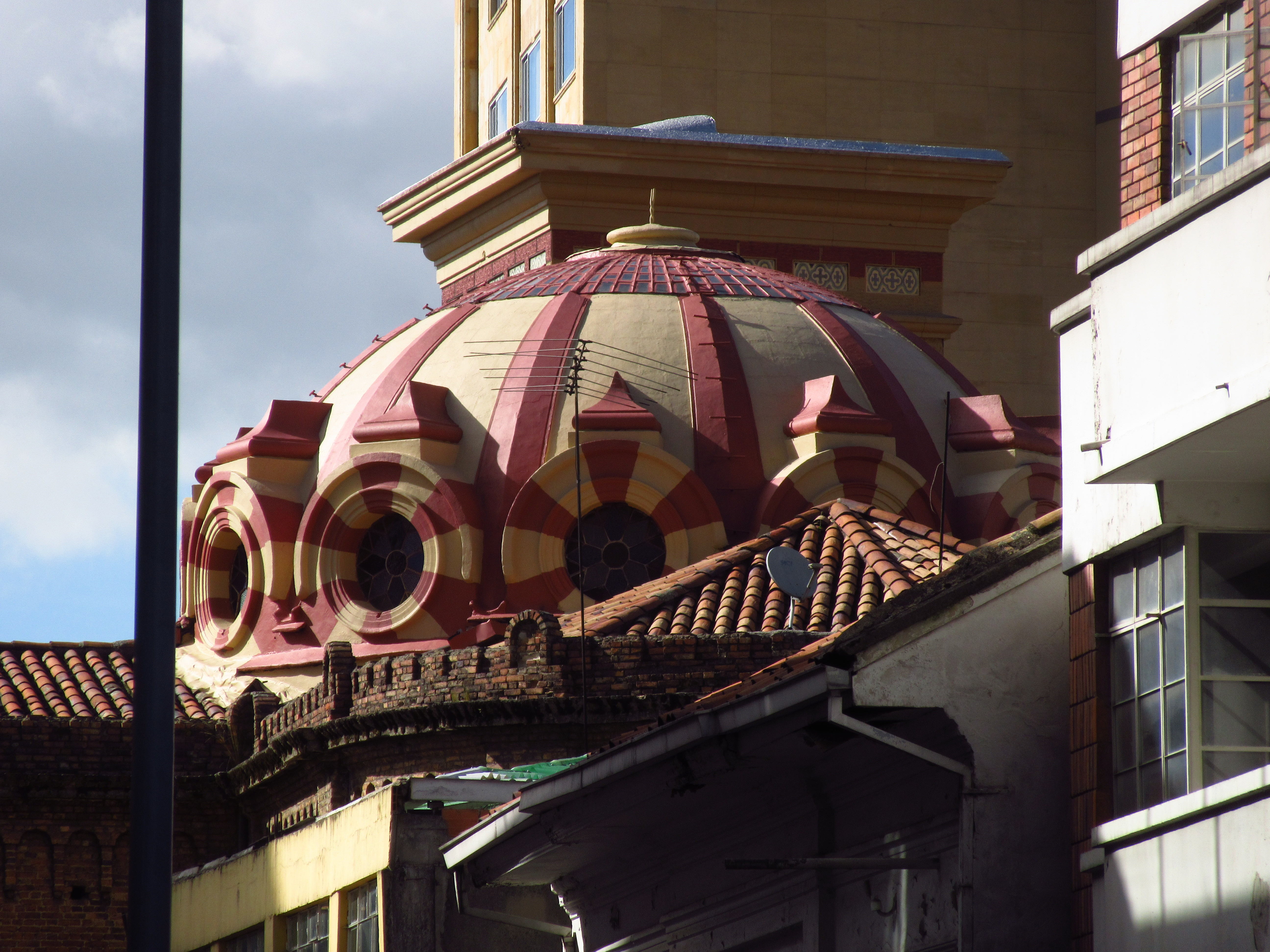 Bogotá